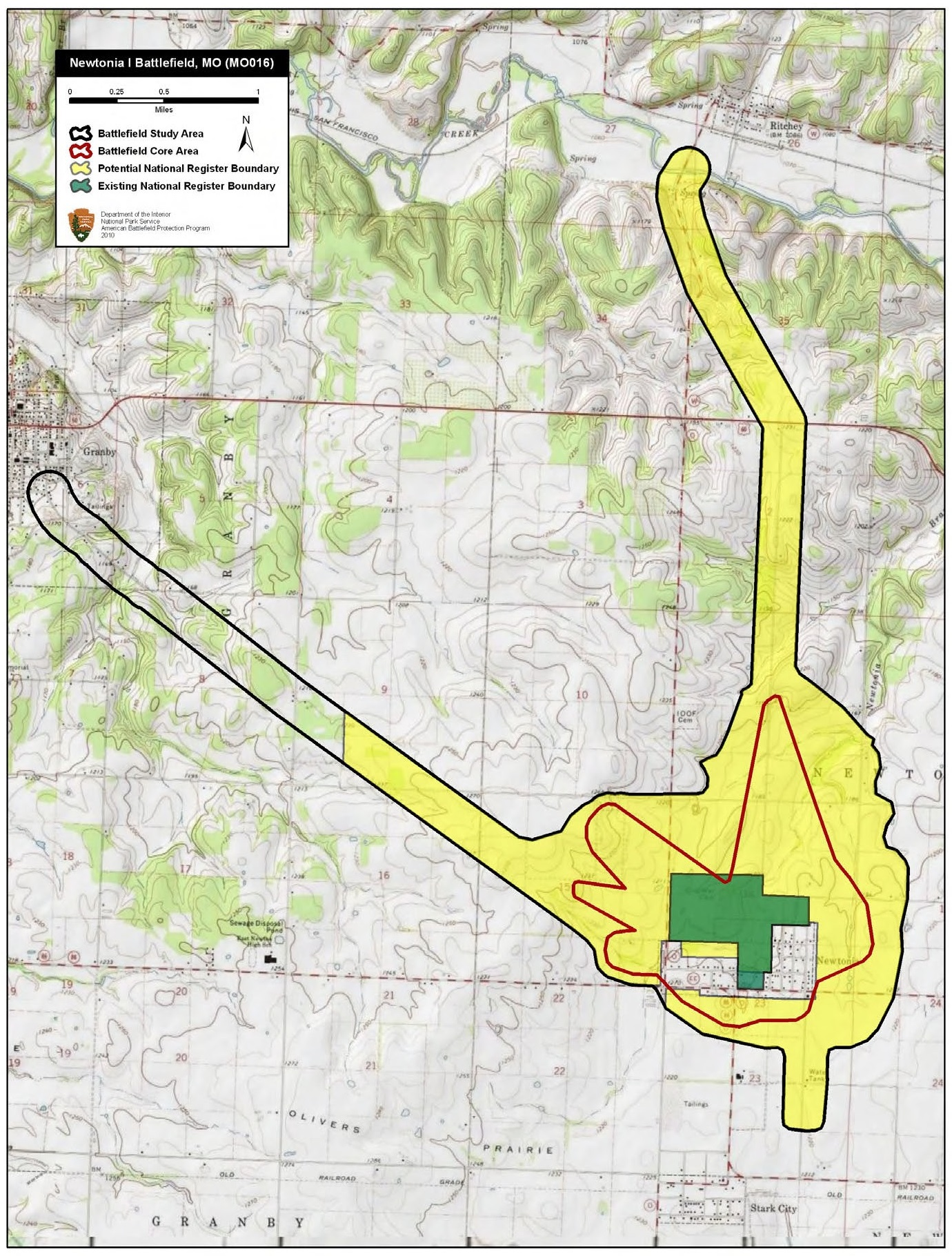 Map of battlefield core and study areas. The ABPP expanded the 1993 Study Area to include the town of Granby, from which Union forces marched to Newtonia, and the Confederate approach from Camp Coffee (based on the findings of a 1995 archeological survey funded by the ABPP). The Federal approach from a campsite approximately three miles north of Newtonia was also added (Union reenforcements from Sarcoxie retreated to these camps, but their exact route is not known and therefore not included on the map). The ABPP expanded the Core Area to include the Confederate flanking attack along the Granby Road, and the area bombarded by the Federal artillery on the heights north and northwest of Newtonia.